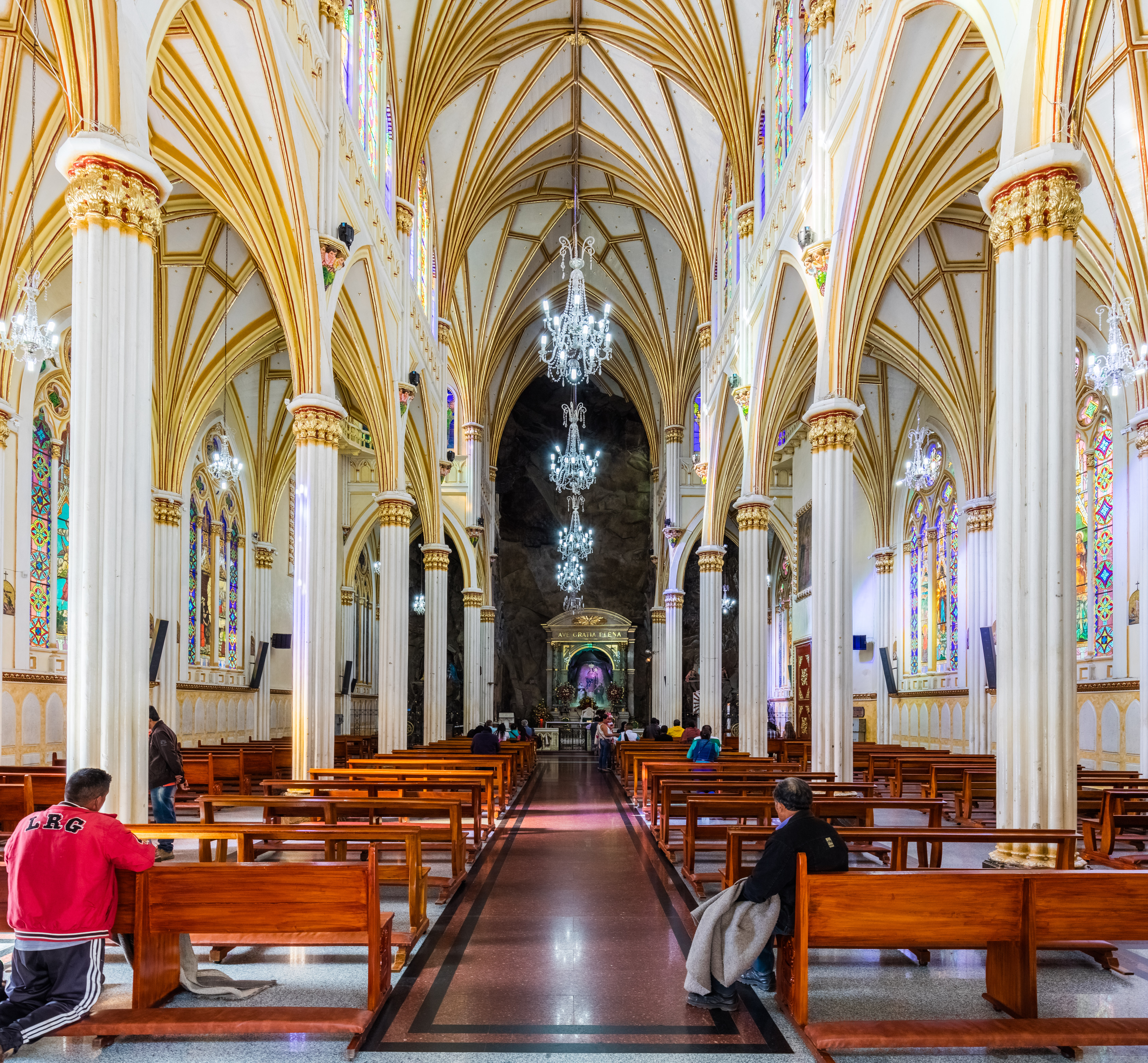 Sanctuary of Las Lajas, Ipiales, Colombia